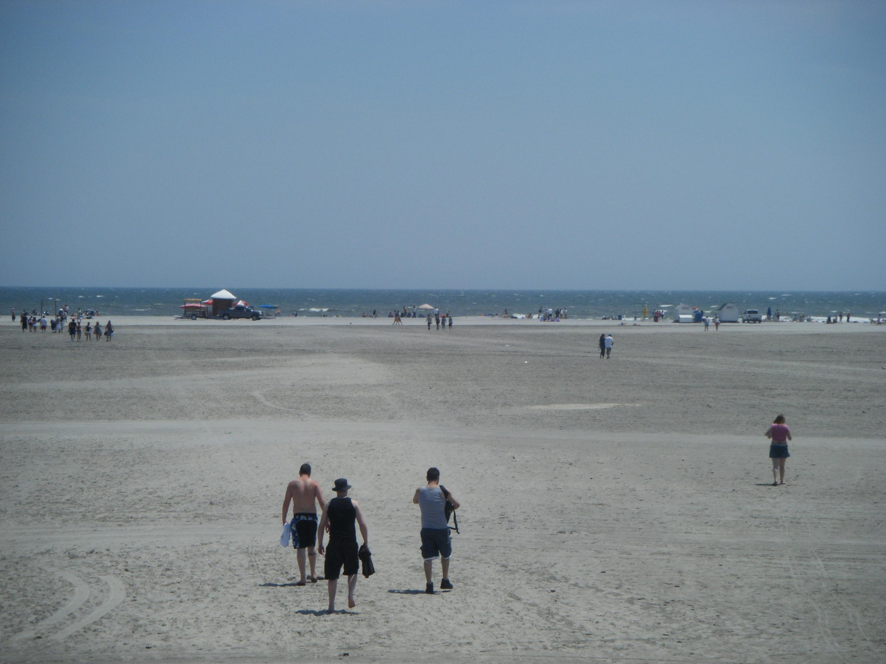 A view of the beach in Wildwood, New Jersey north of the Mariner's Landing amusement pier, taken on Memorial Day 2008.